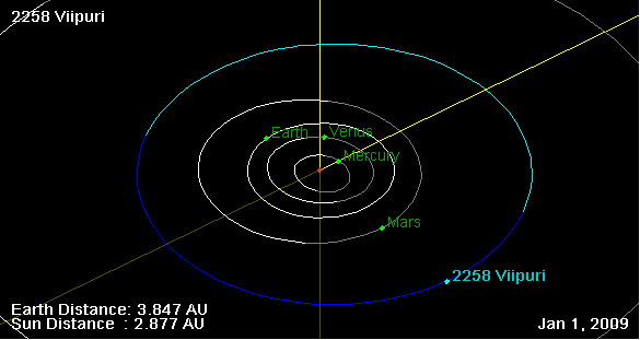 2258 Viipuri orbit, and his position on 1 Jan 2009 (NASA Orbit Viewer applet)